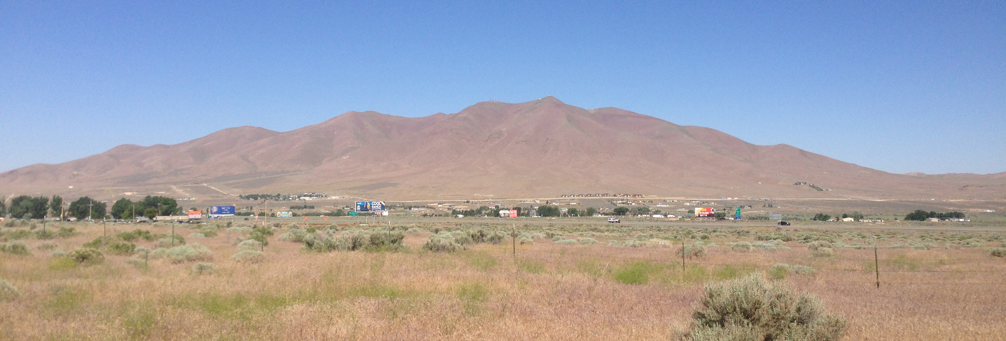 View of Winnemucca Mountain from Nevada State Route 794 (East Winnemucca Boulevard) in Winnemucca, Nevada-cropped